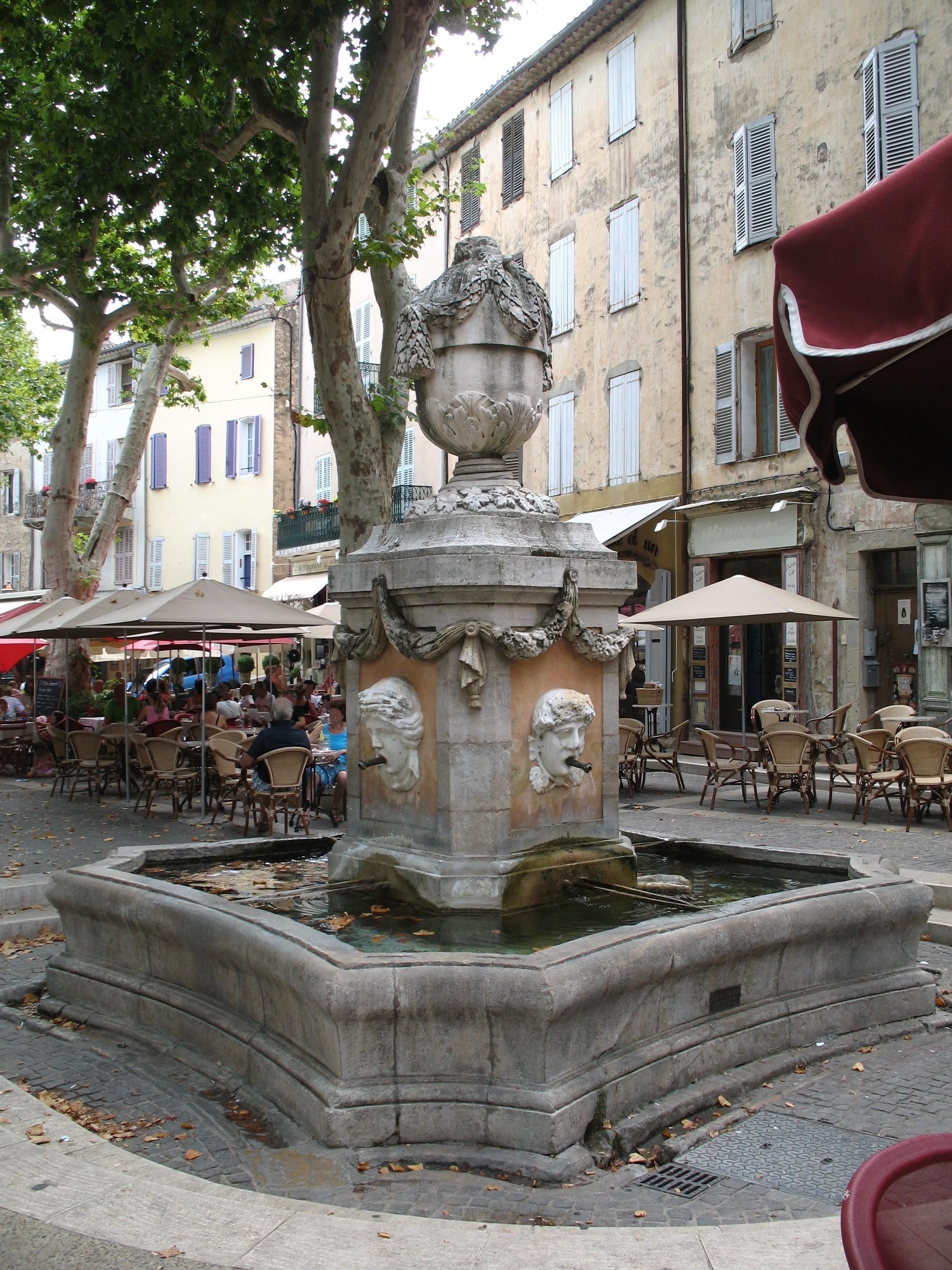 Fontaine des Quatre Saisons - North East view (Cotignac, Var, France)